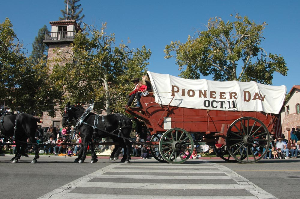 Vintage Billboard